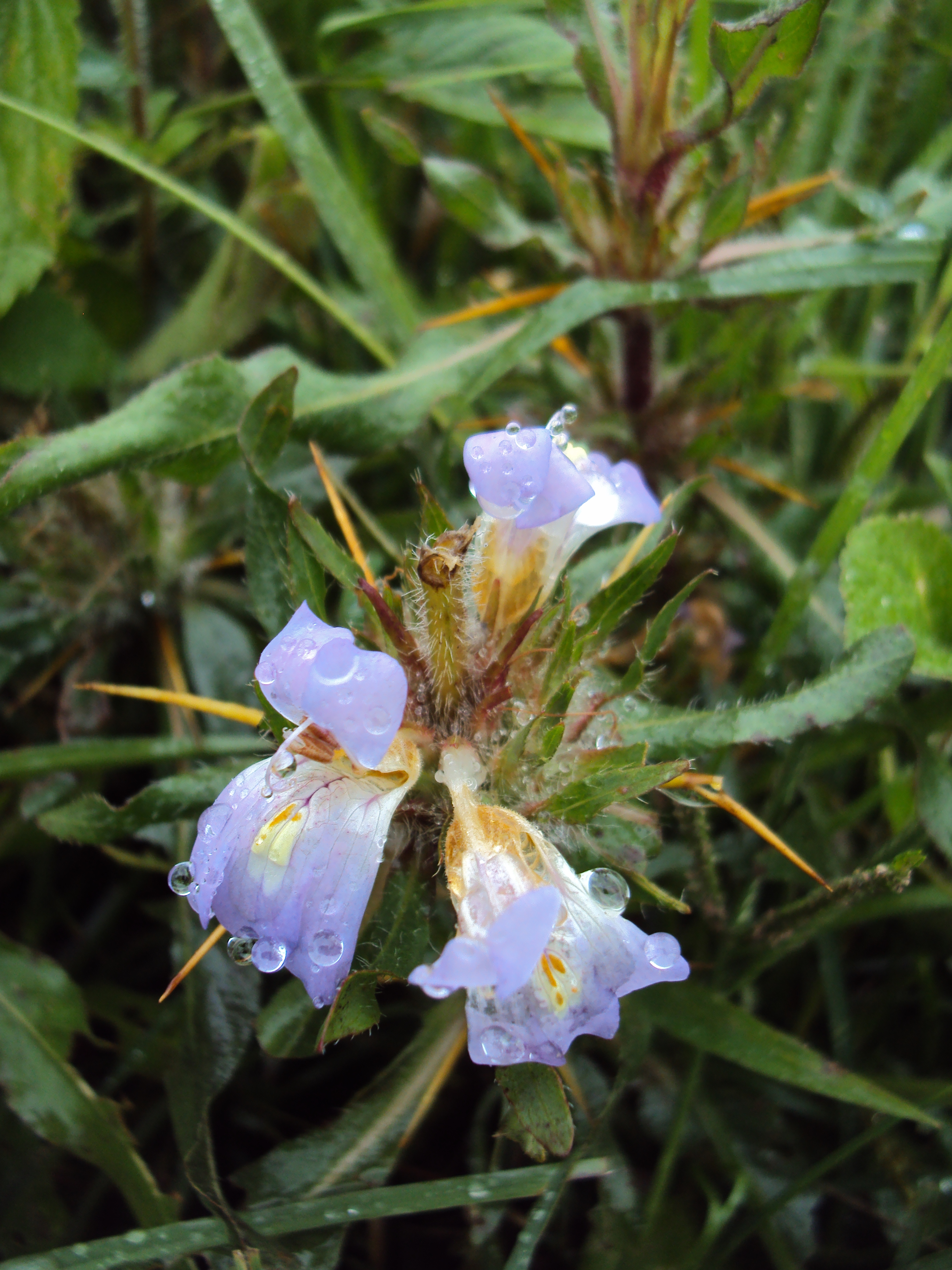 Hygrophila auriculata